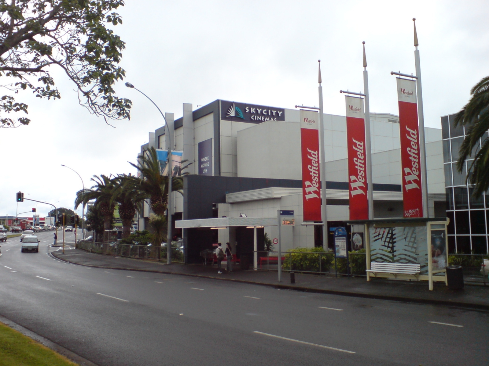 Westfield St Lukes shopping centre, Auckland City, New Zealand. Seen from the southeast looking over St Lukes Road.